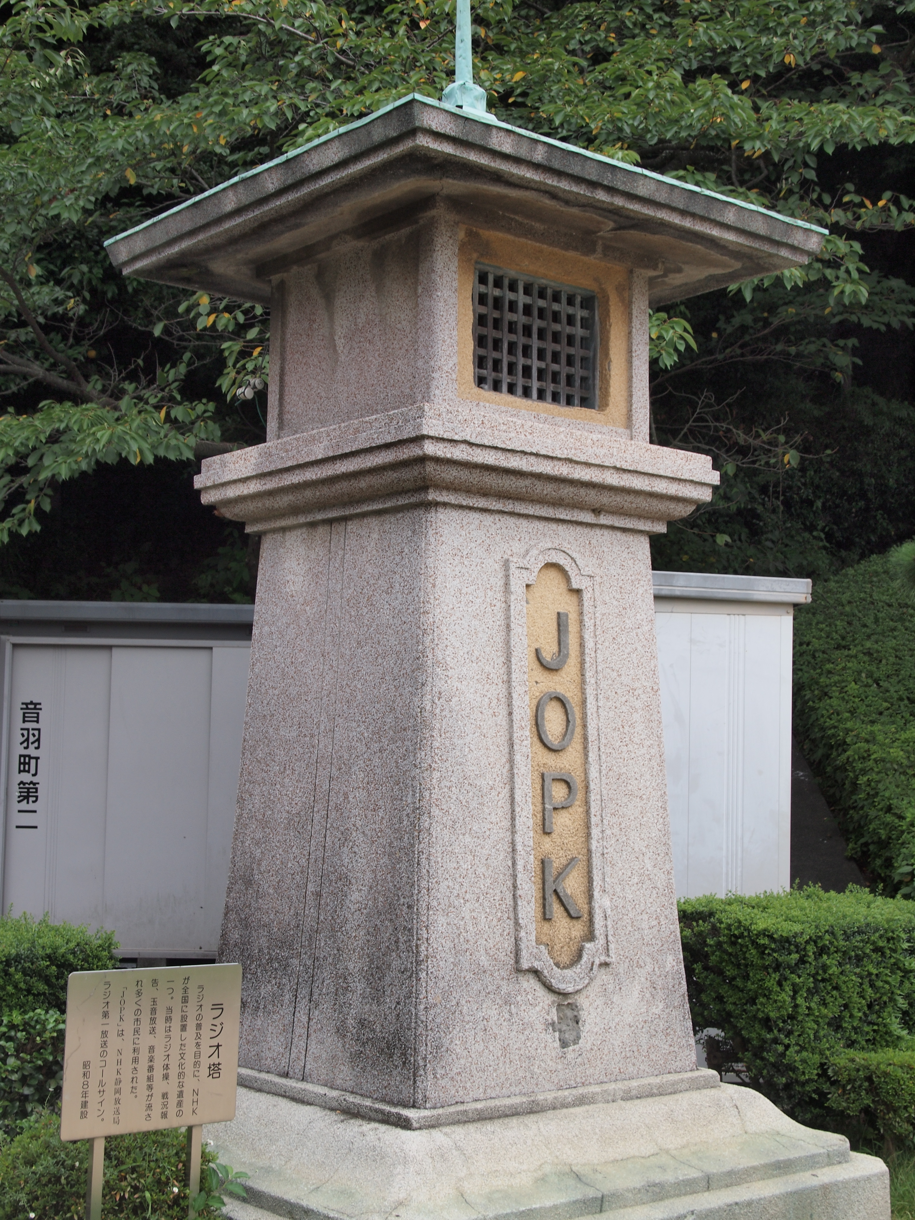 A Radio-Tower (Radio-Toh) that set by JOPK (NHK Shizuoka) . Radio-Toh (ラジオ塔) are public radio receivers of the early Showa period. At Kiyomizuyama Park in Shizuoka City.